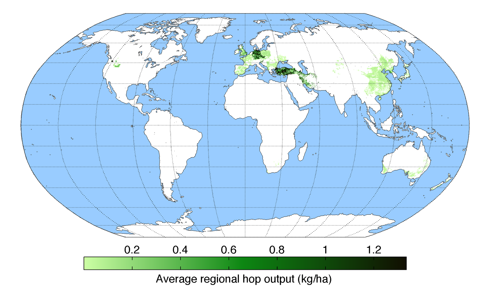 Map of hop production (average percentage of land used for its production times average yield in each grid cell) across the world compiled by the University of Minnesota Institute on the Environment with data from: Monfreda, C., N. Ramankutty, and J.A. Foley. 2008. Farming the planet: 2. Geographic distribution of crop areas, yields, physiological types, and net primary production in the year 2000. Global Biogeochemical Cycles 22: GB1022